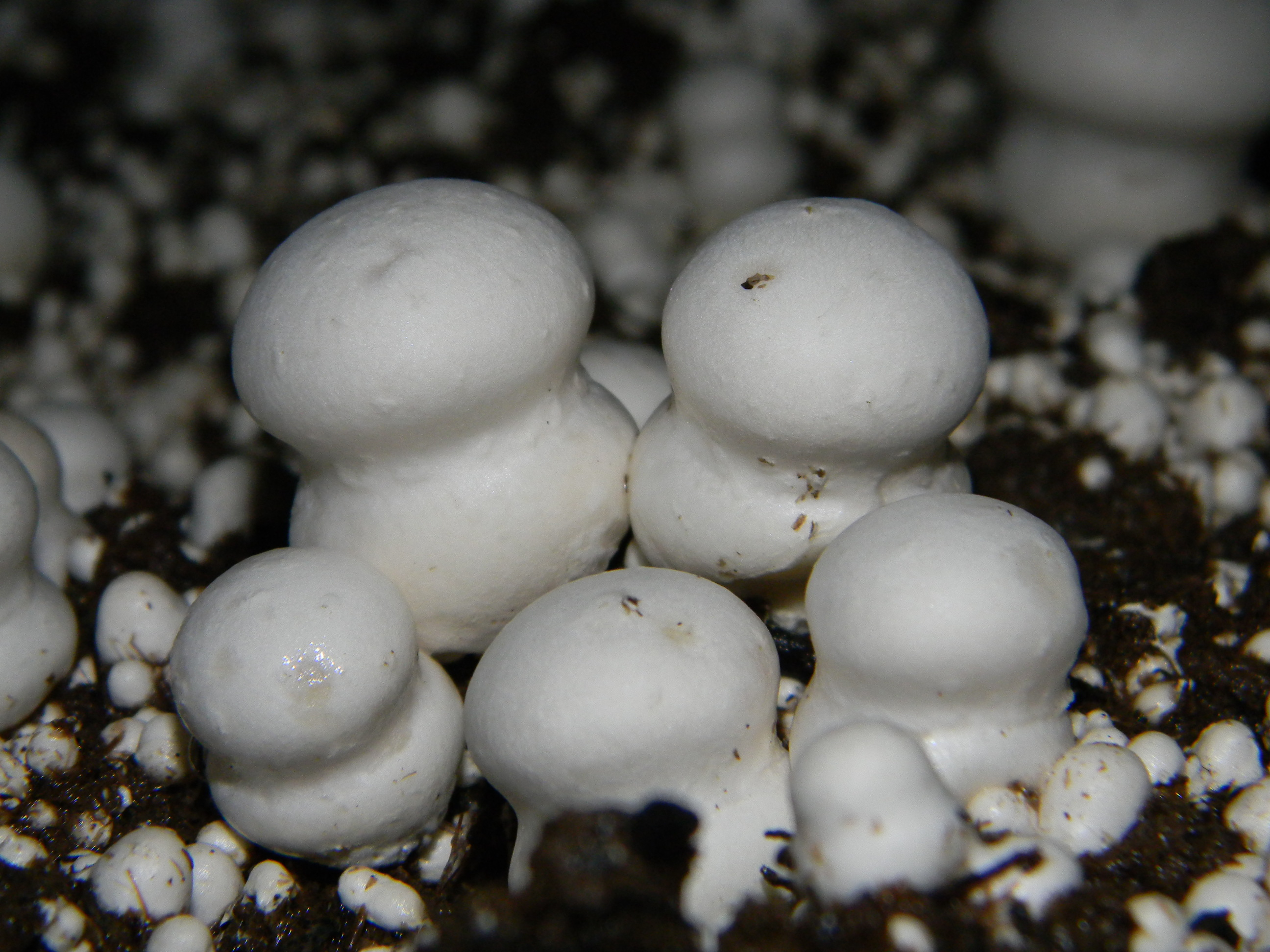 Agaricus bisporus (J.E. Lange) Pilát Location: Ostrom’s Mushrooms, Mushroom Corner, Lacey, Washington, USA Observation Notes: of course I did sense your sarcasm, but in my response to your pretended to be unware of it. I do believe in natural organic fertilizers, and their use would not deter me from buying foods, like mushrooms… For more information about this, see the observation page at Mushroom Observer.